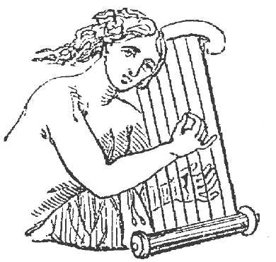 Nevel as depicted in a 19th Century woodcut based on ancient art.